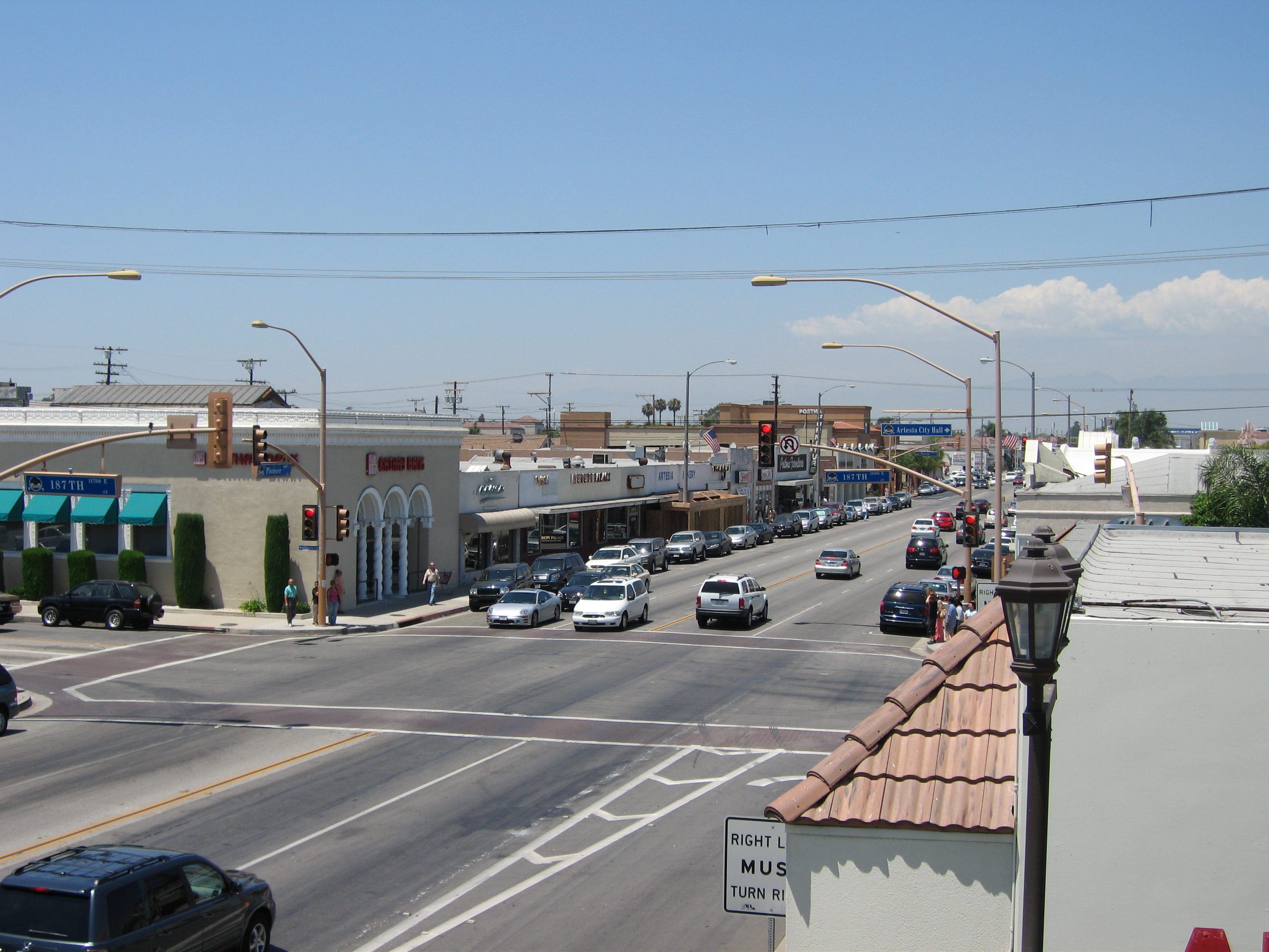 Pioneer Blvd in Artesia, California